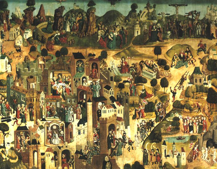 Toruń, St. James church, Passion painting, about 1480-90.